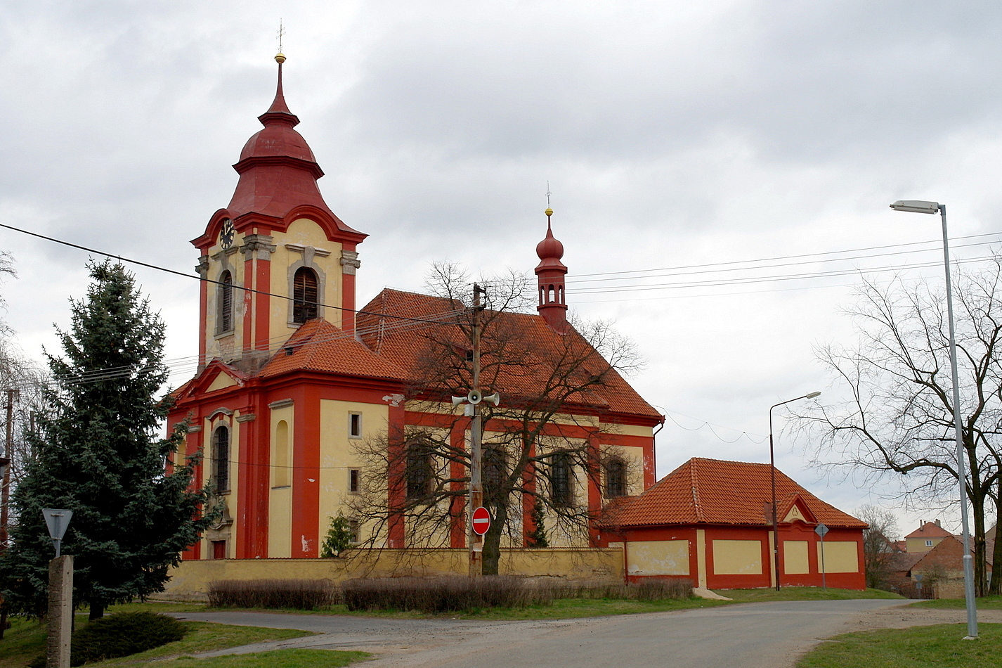 Church of St. Wenceslas, Ledčice, Mělník District. Built in Baroque style in the years 1737-1752 instead of the former Gothic one of 14th. century. Mortuary and cemetery walls from the years 1746-1749. Total renovation took place in 1999-2000. View from SW